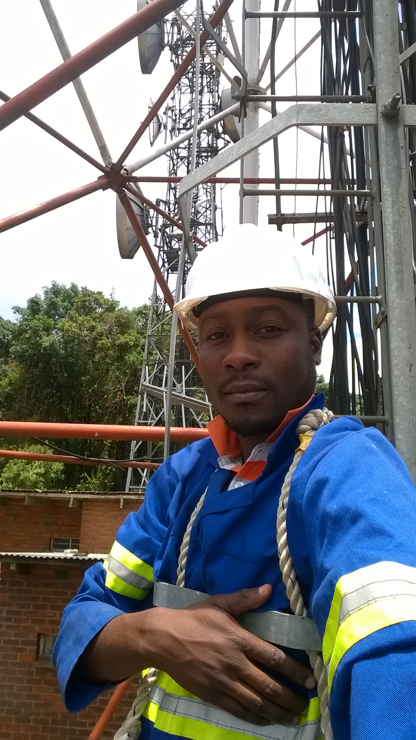 Frank at Dedza Peak in Dedza, Malawi . Installing Microwave radio link to Lilongwe This is an image of "African people at work" from Malawi